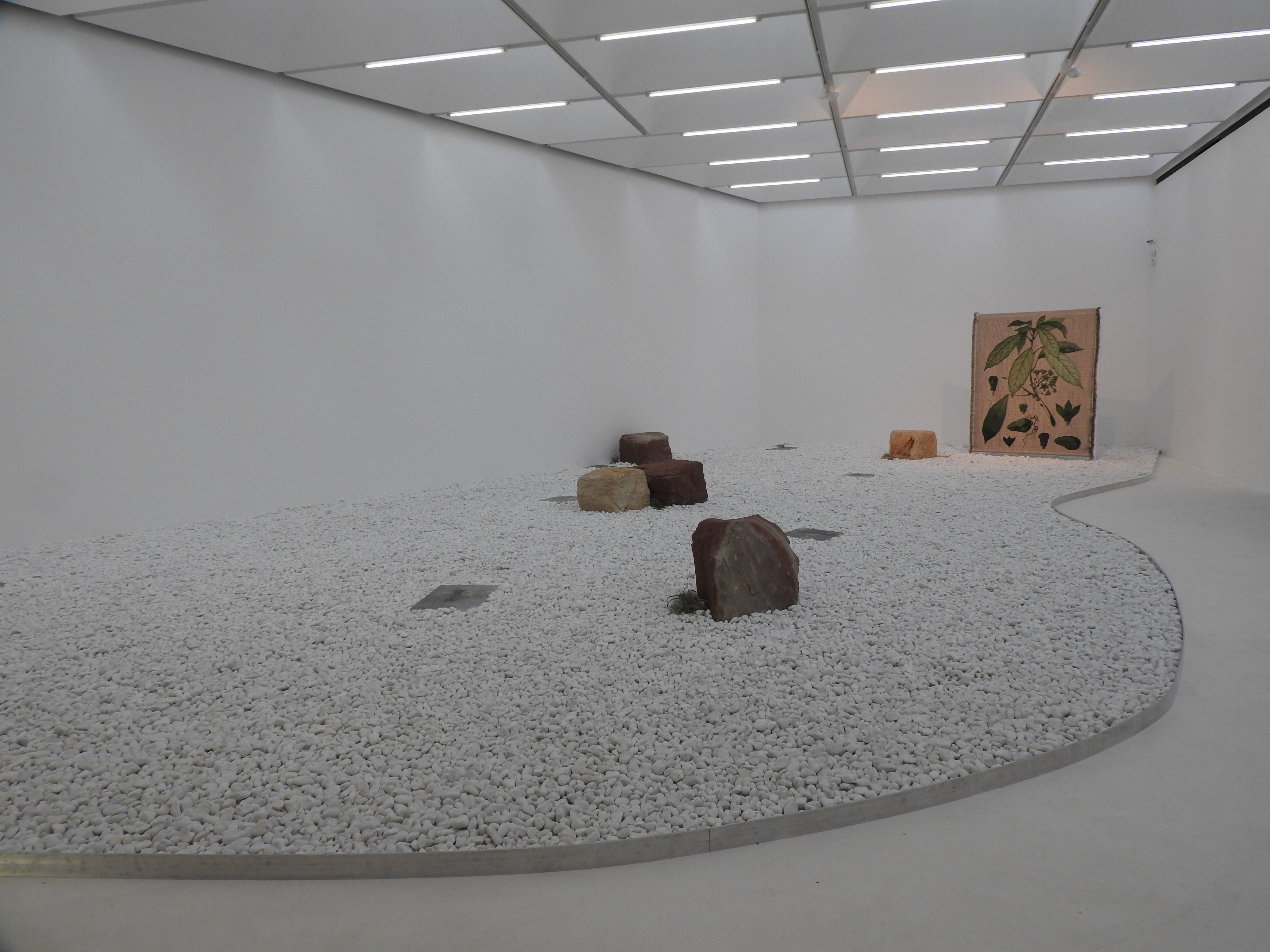 Otobong Nkanga 'The Encounter That Took a Part of Me' at Nottingham Contemporary Gallery. Taste of a Stone. Iko Title